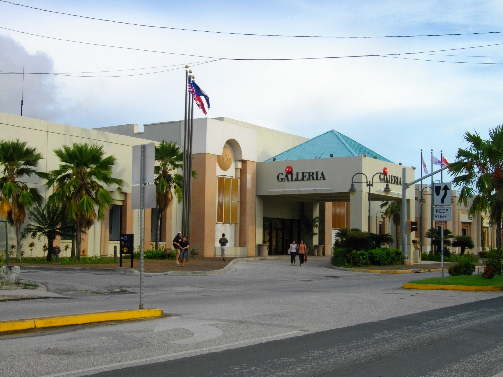 DFS Galleria Saipan